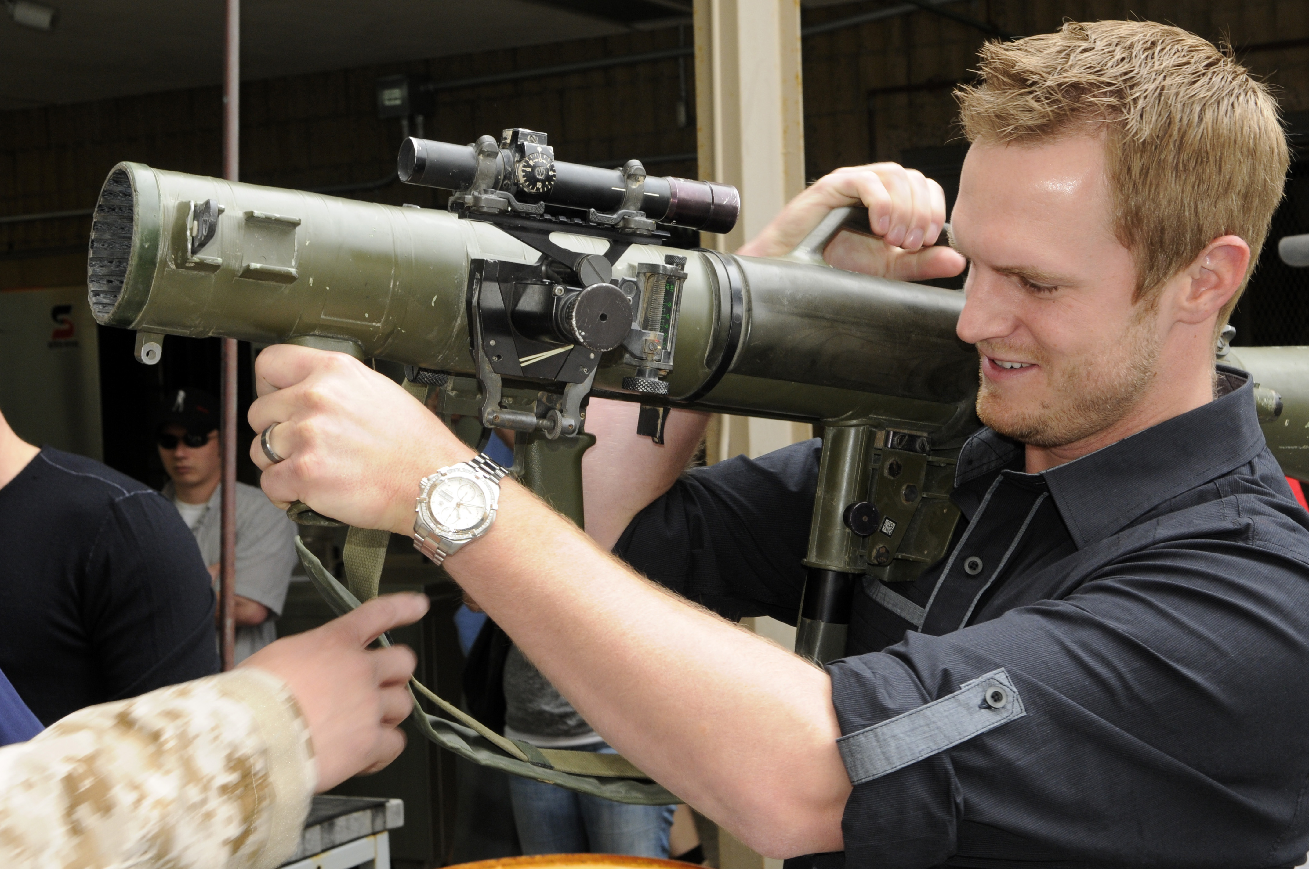 CORONADO, Calif. (April 11, 2011) Major league baseball player Kyle Kendrick, of the Philadelphia Phillies, holds a Carl Gustav rocket launcher during a tour of SEAL Team 3 at Naval Amphibious Base Coronado. (U.S. Navy photo by Mass Communication Specialist 2nd Class Kyle D. Gahlau/Released)